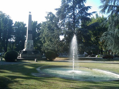 Piazza S. Eusebio di Vercelli